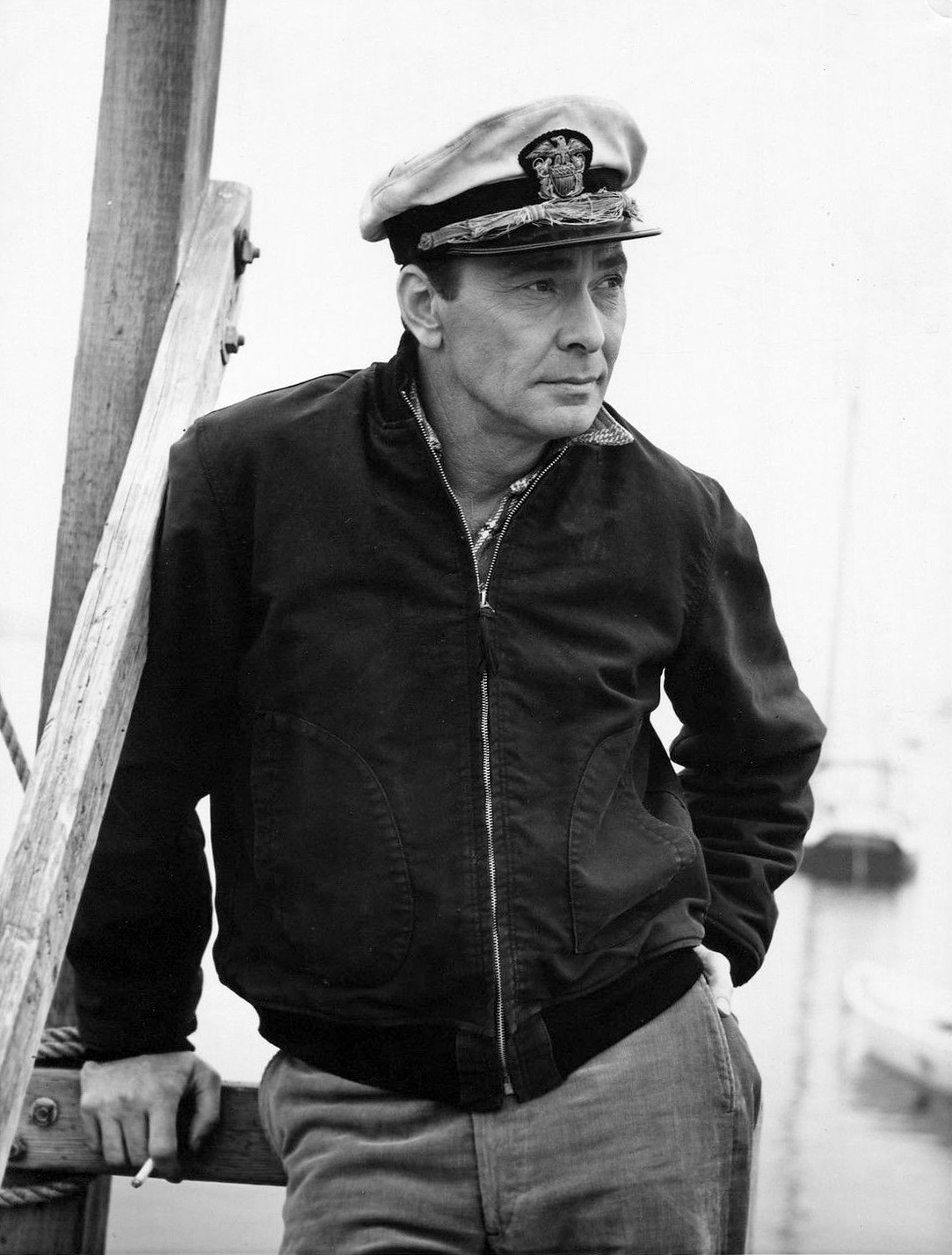 Barry Sullivan as David Scott in Harbormaster TV series, 1957.